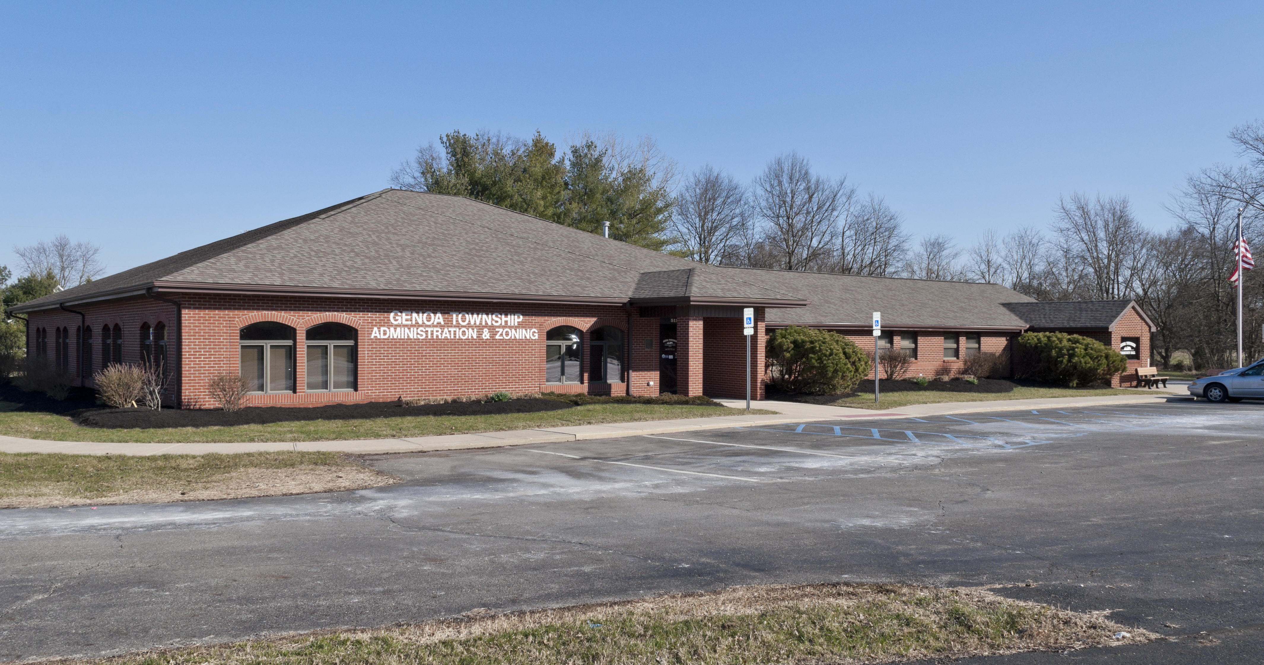 Genoa Township Administration and Zoning Building taken from the northwest in early March 2018.